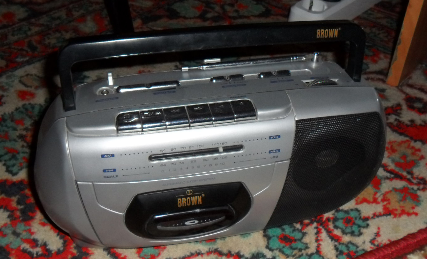 Audiocassete mono player